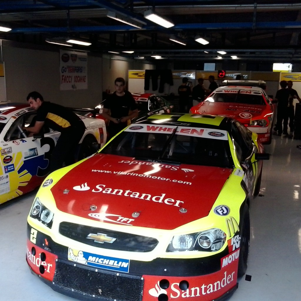 This is the car of Ander Vilarino